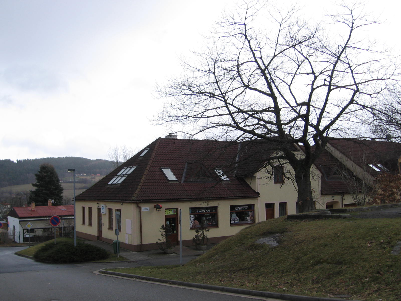 Former Barracks of the 62nd Motor Rifle Regiment in Prachatice.